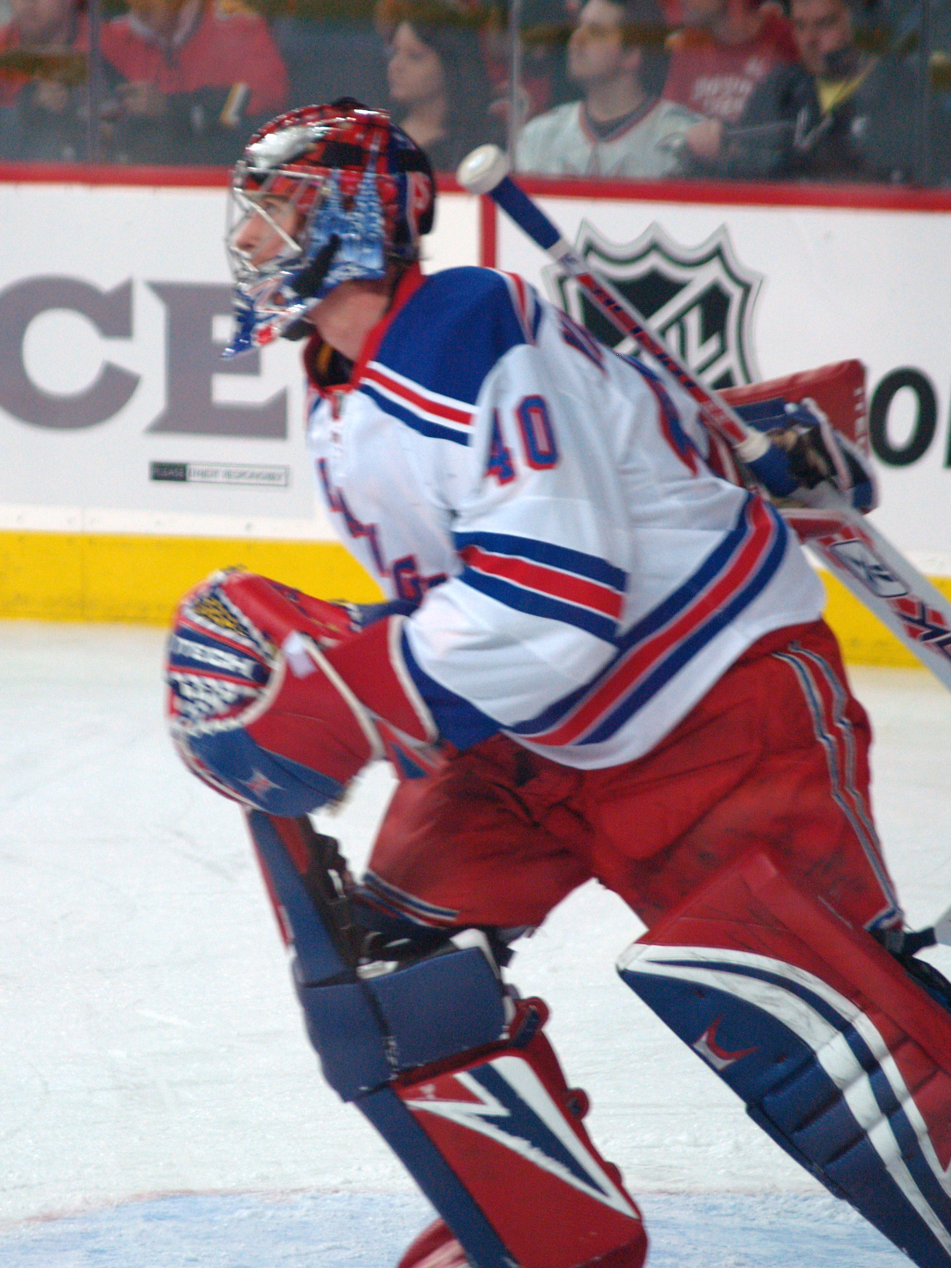 Stephen Valiquette of the New York Rangers during a warmup in Calgary